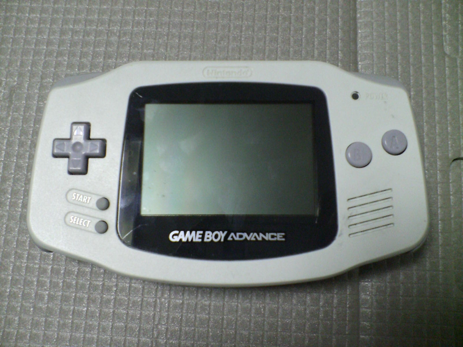 Game Boy Advance